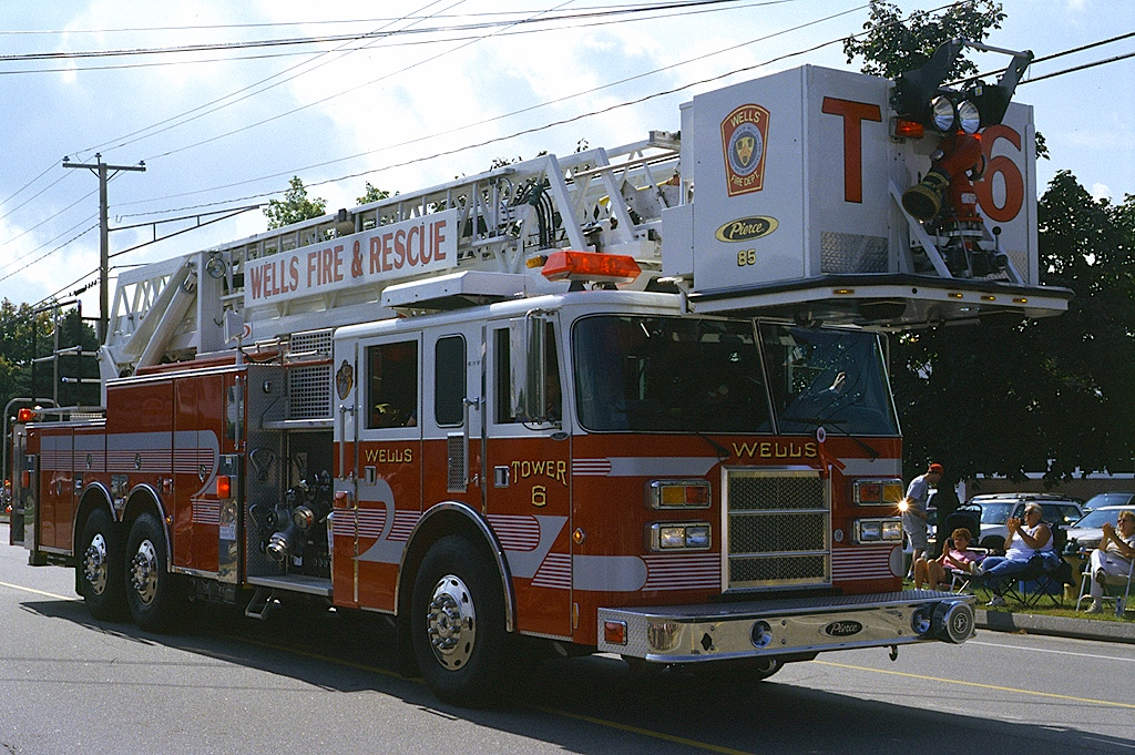 Tower 6 of the Wells Fire Department in Wells, Maine, participating in the town's 350th anniversary parade.